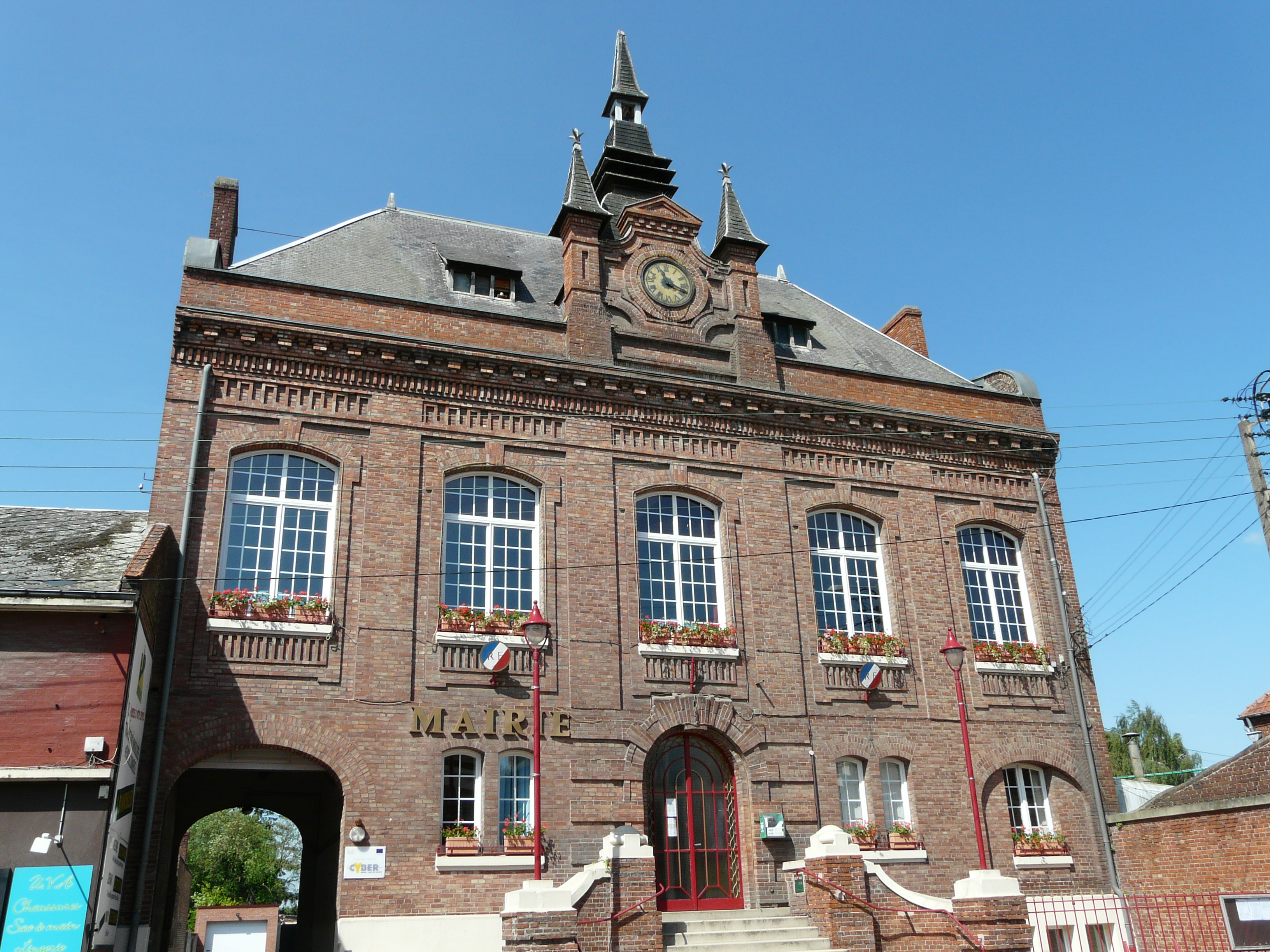 Townhall of Iwuy (Nord, France)